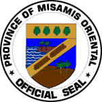 Provincial seal of Misamis Oriental, Philippines.